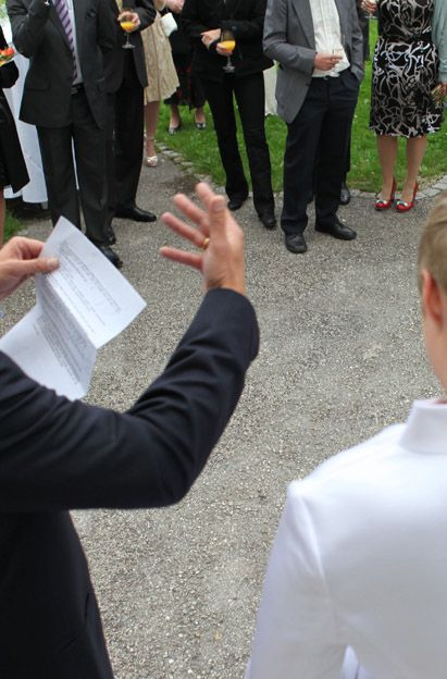 wedding speech